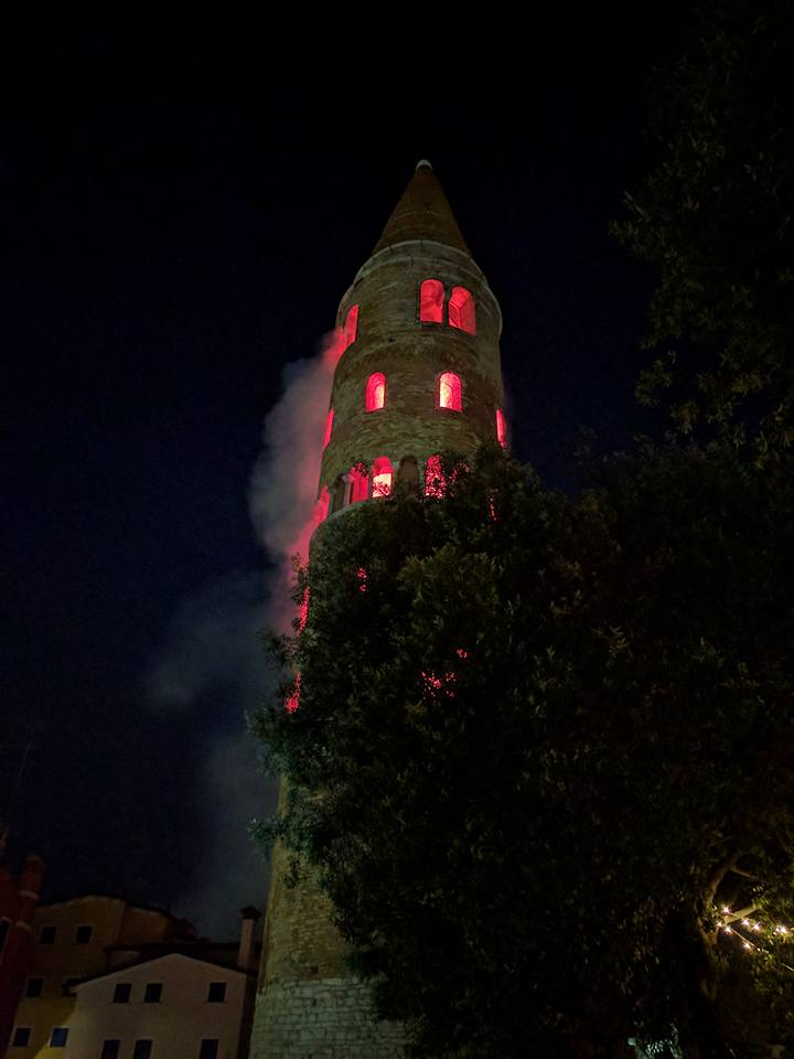 Caorle bell tower with fireworks